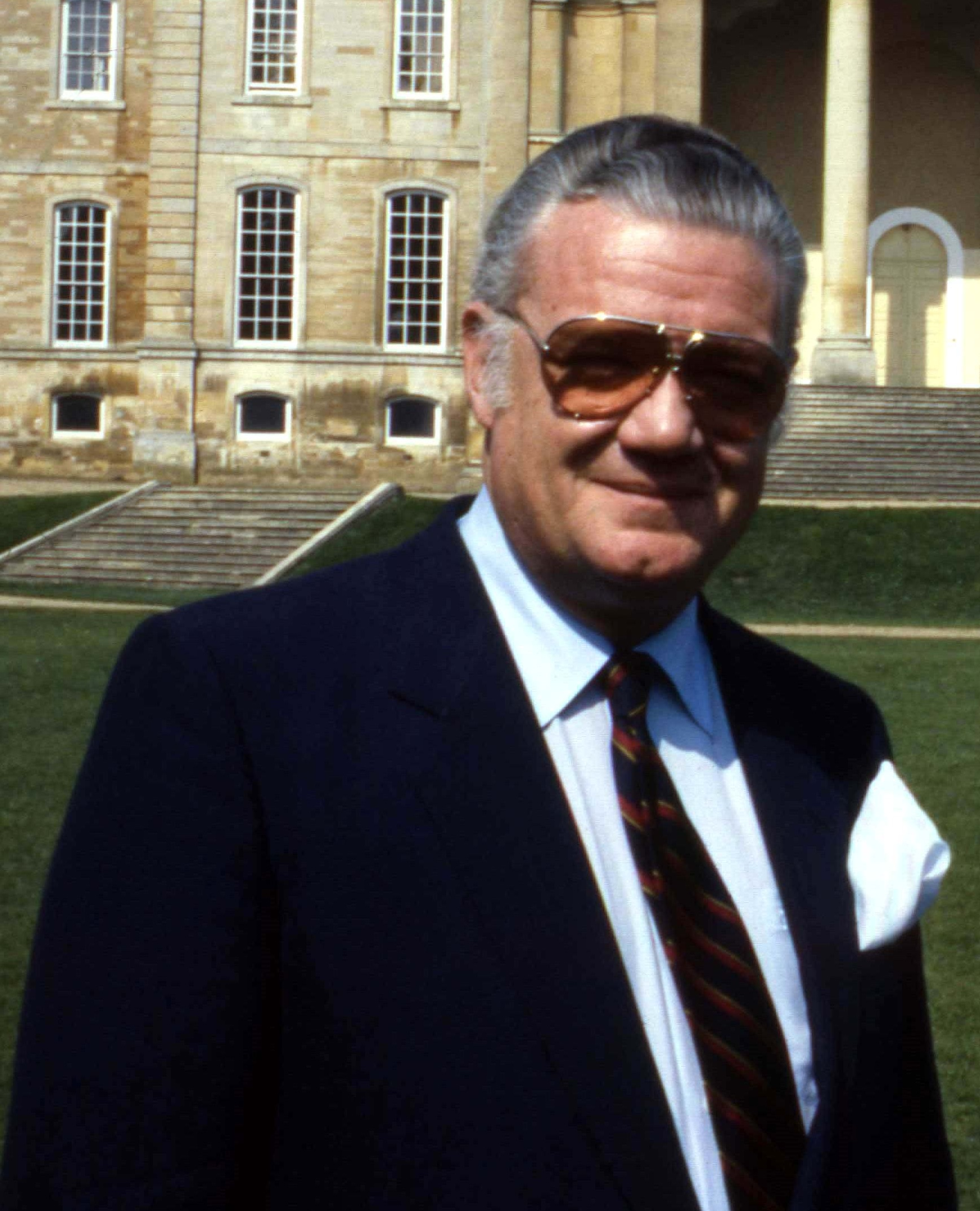 portrait 12th Duke of Manchester outside the Manchester Family seat Kimbolton Castle